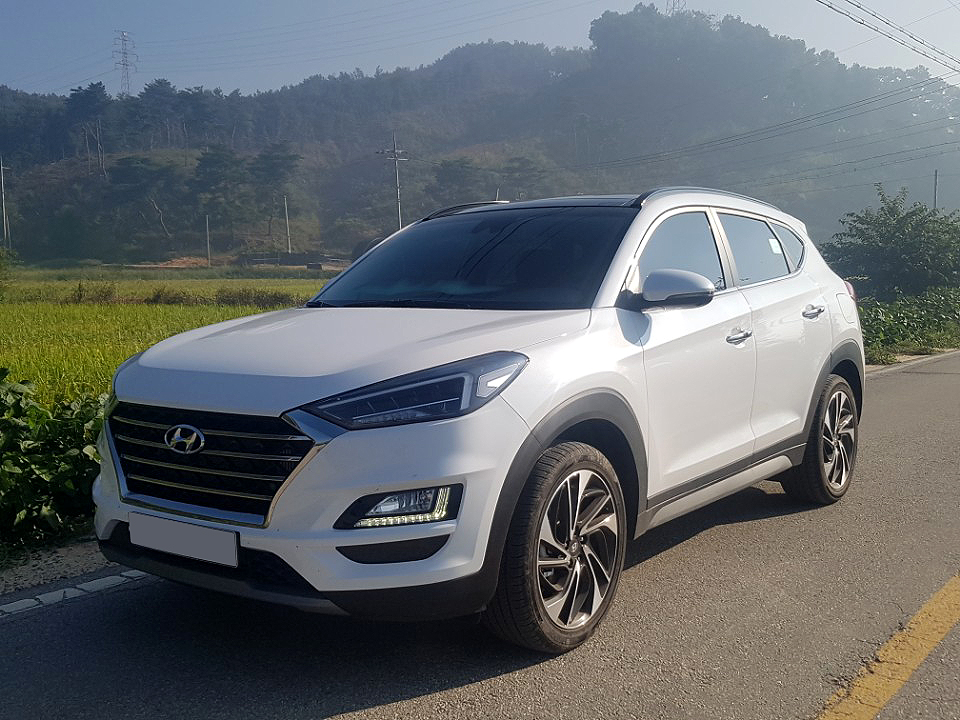 Hyundai All New Tucson(2019) Front-Side